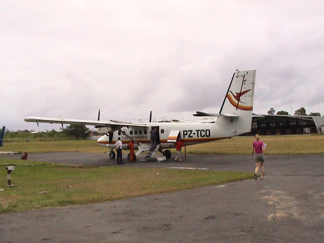 Airport Zorg & Hoop